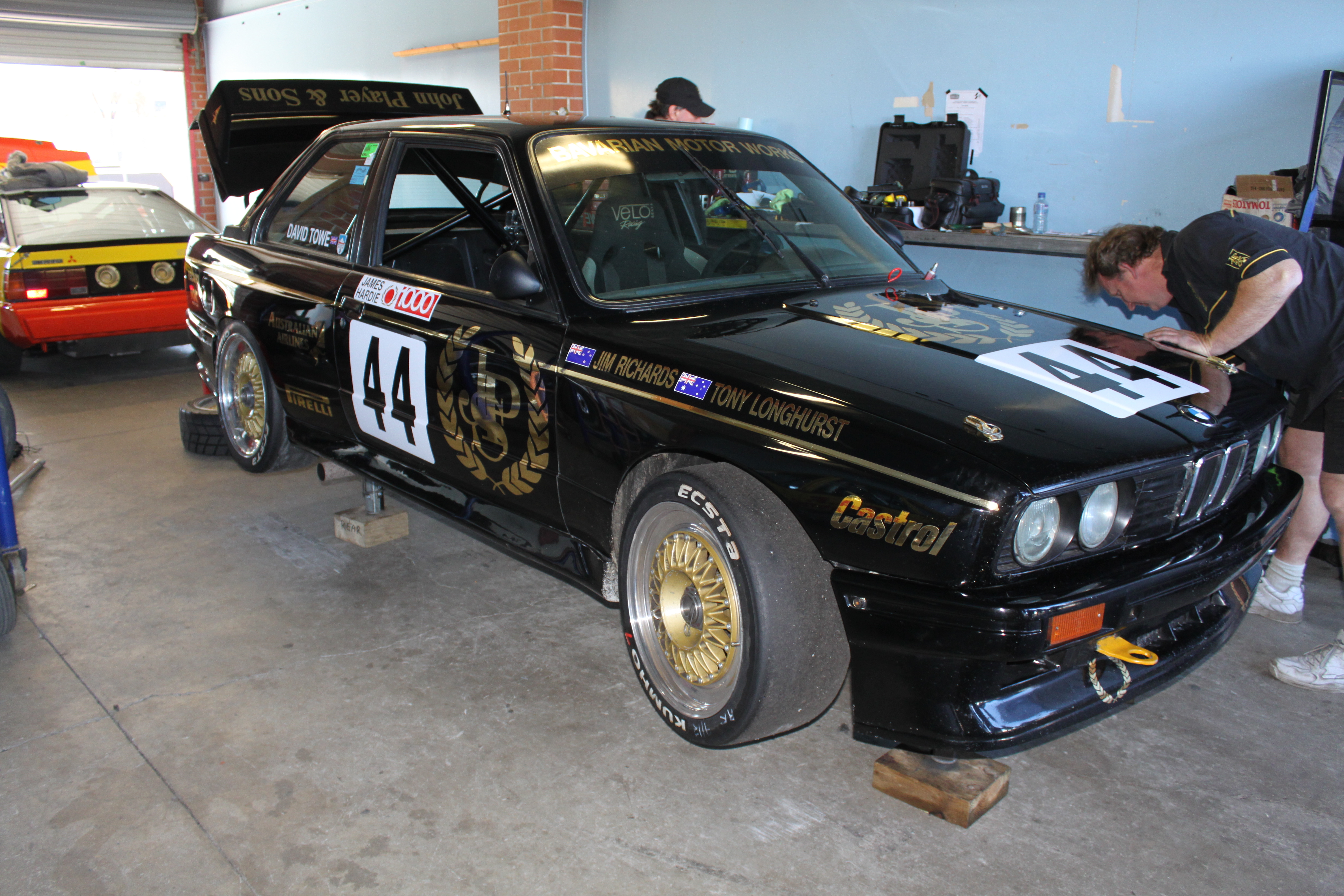 BMW E30 M3 Richards & Longhurst